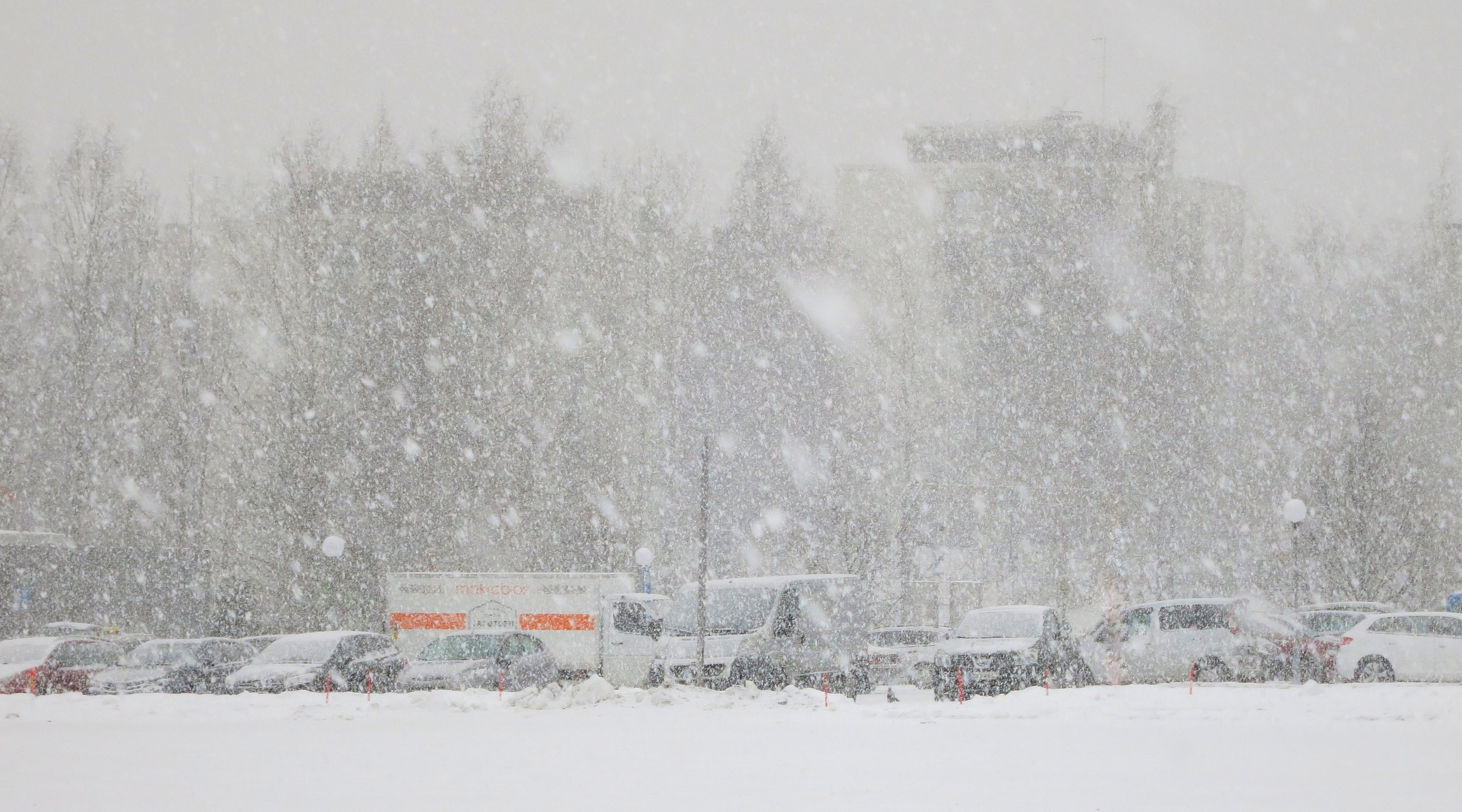 Snowfall in Hyvinkää (Finland)